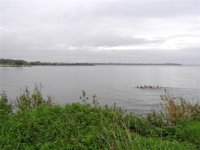 Ducks on Lough Neagh Taken near Ballyronan